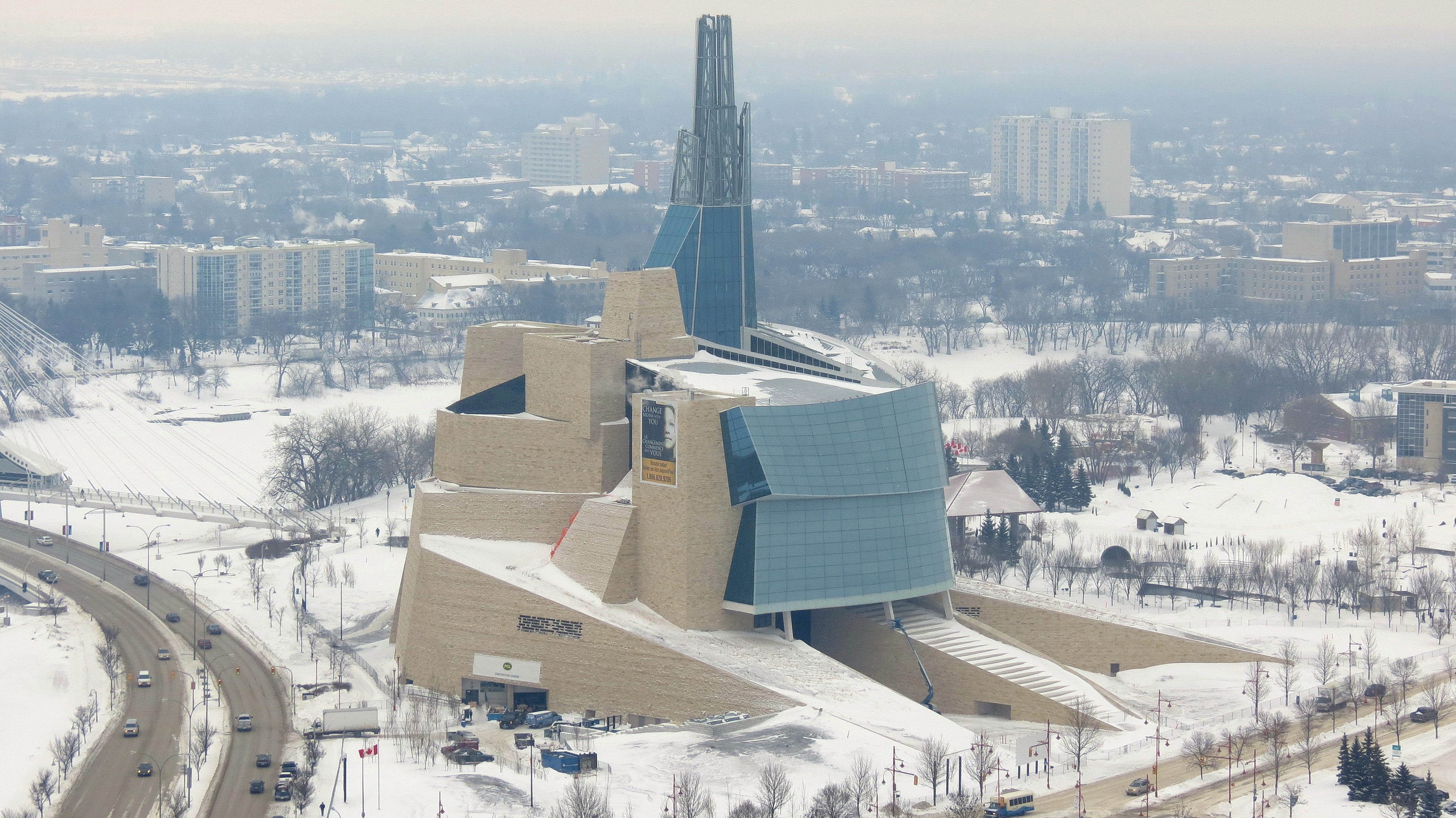 Canadian Museum for Human Rights, The Forks, Winnipeg, Manitoba, Canada